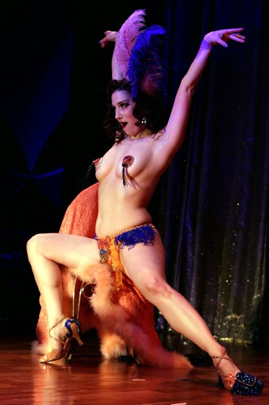 Miss Indigo Blue at Miss Exotic World, 2006.